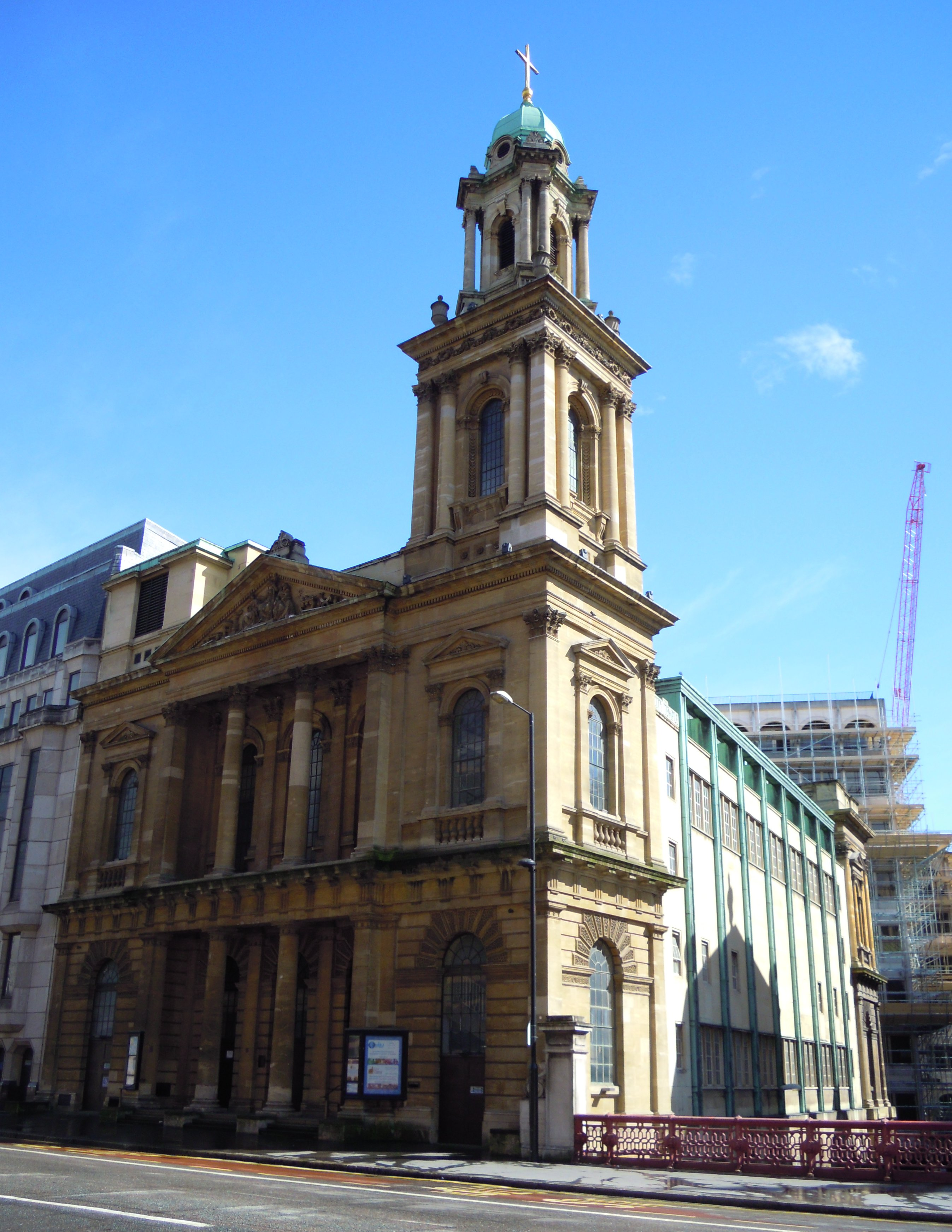 Photograph of the City Temple in Holborn in London